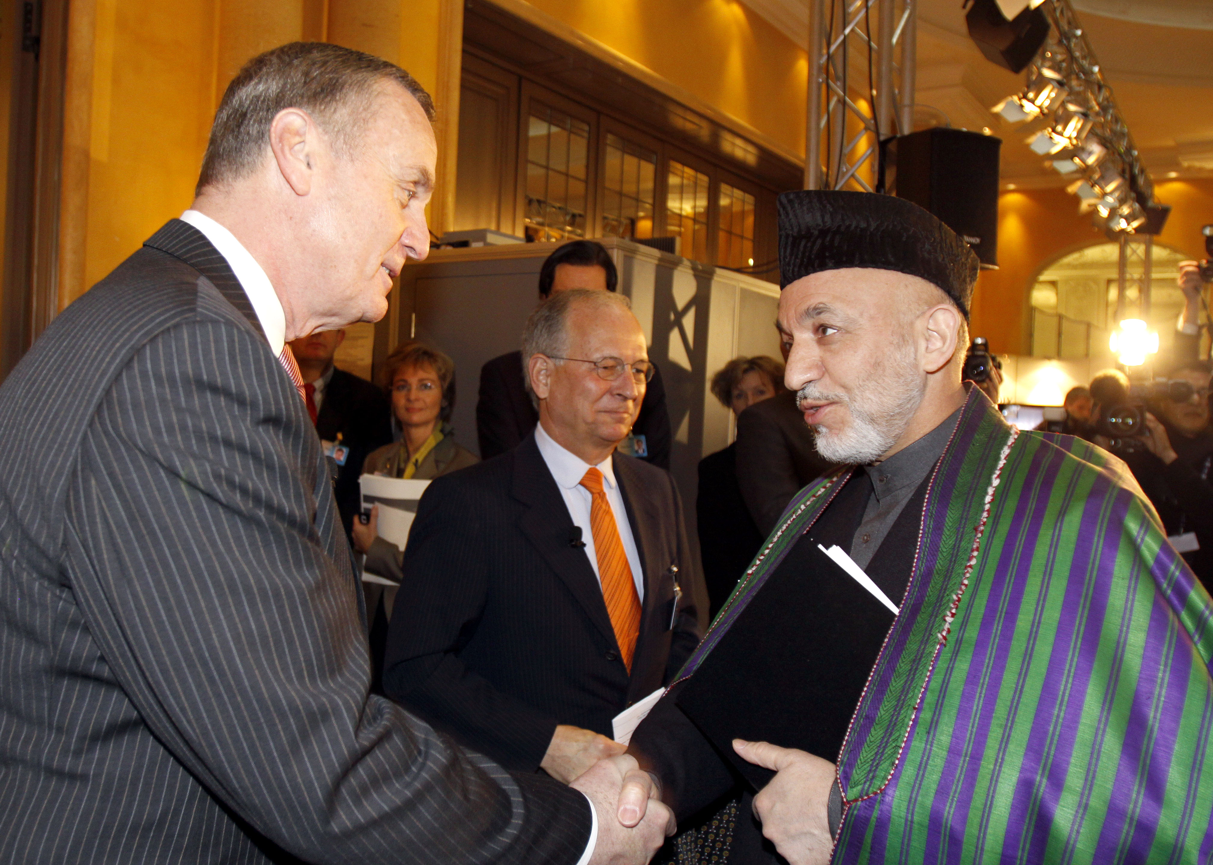 45th Munich Security Conference 2009: James L. Jones (le), U.S. National Security Advisor, and Hamid Karzai (ri), President of the Islamic Republic of Afghanistan.